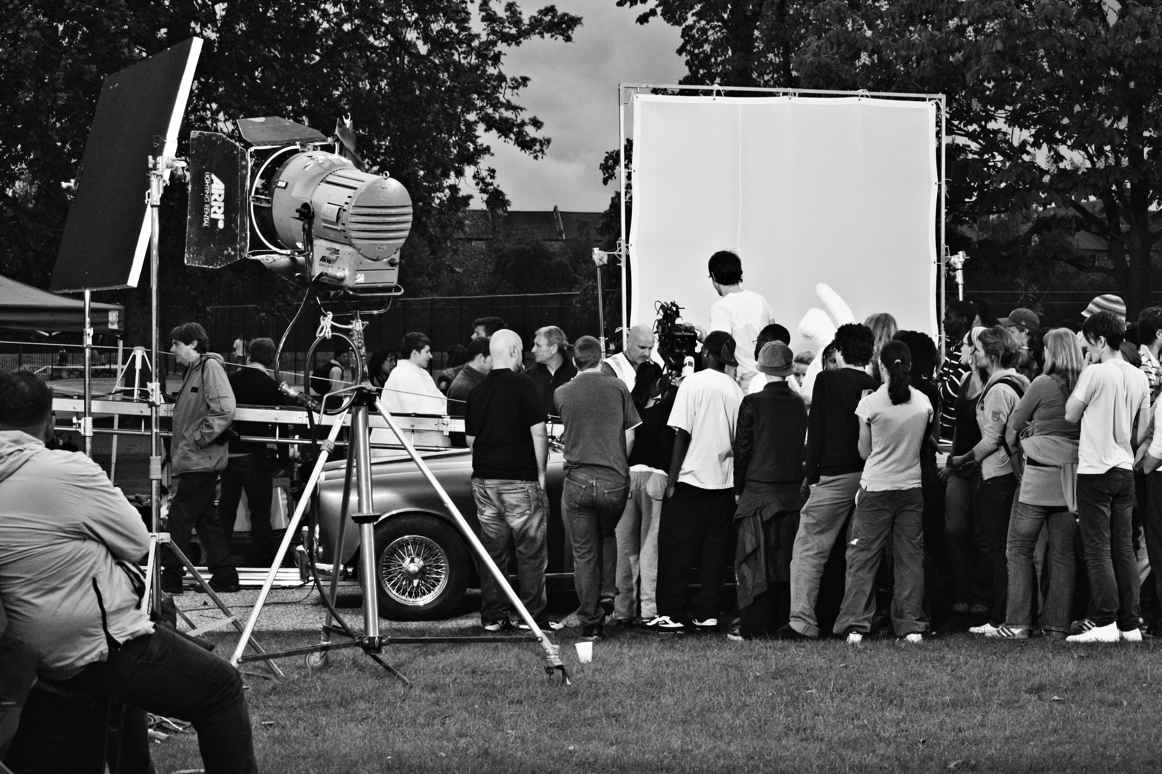 Groove Armada shooting the new video: Song 4 Mutya (Out Of Control) In Finsbury Park, London